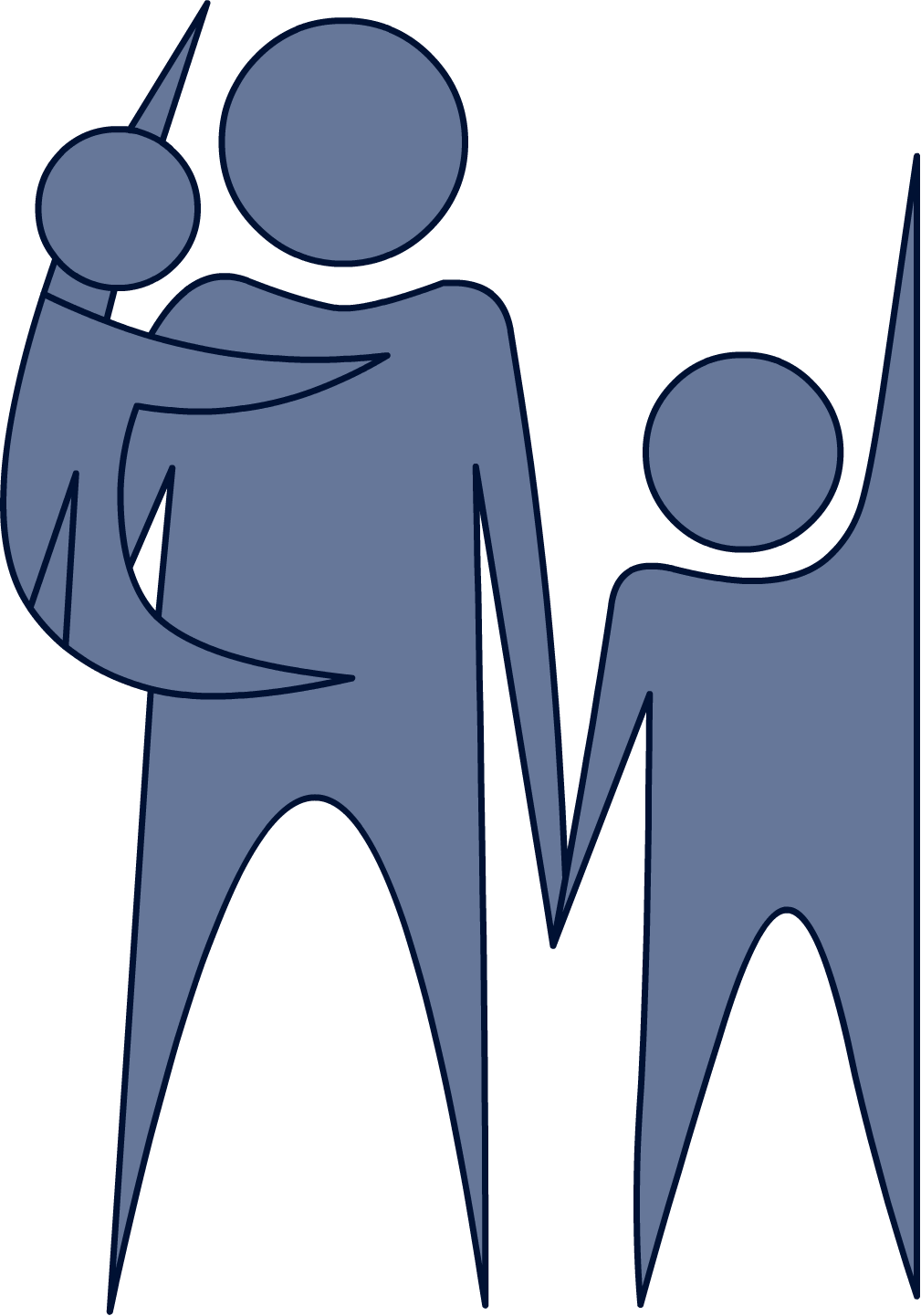 Raising Noodles family. Raising Noodles is a community of parents dedicated to raising children to be good world citizens through the principles of Secular Humanism.